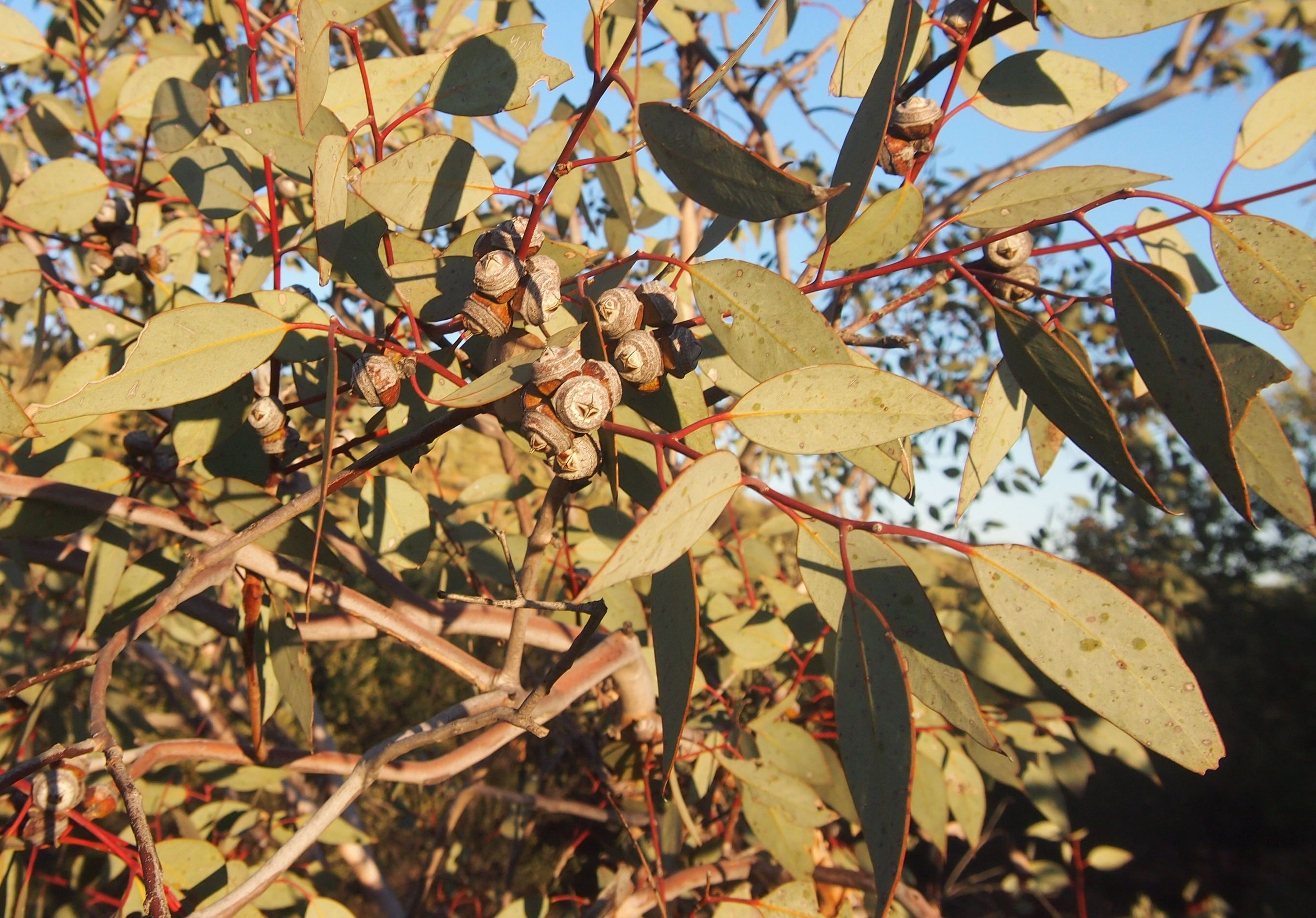 Eucalyptus sessilis capsules and foliage